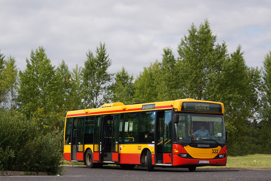 Scania CL94UB OmniLink (#322) at Łęgi street, Grudziądz, Poland. Built 2000, MZK Grudziądz operator.